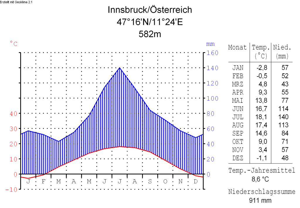 climate chart in the format by Walter and Lieth, metric, °Celsisus and millimeters, made with Geoklima 2.1